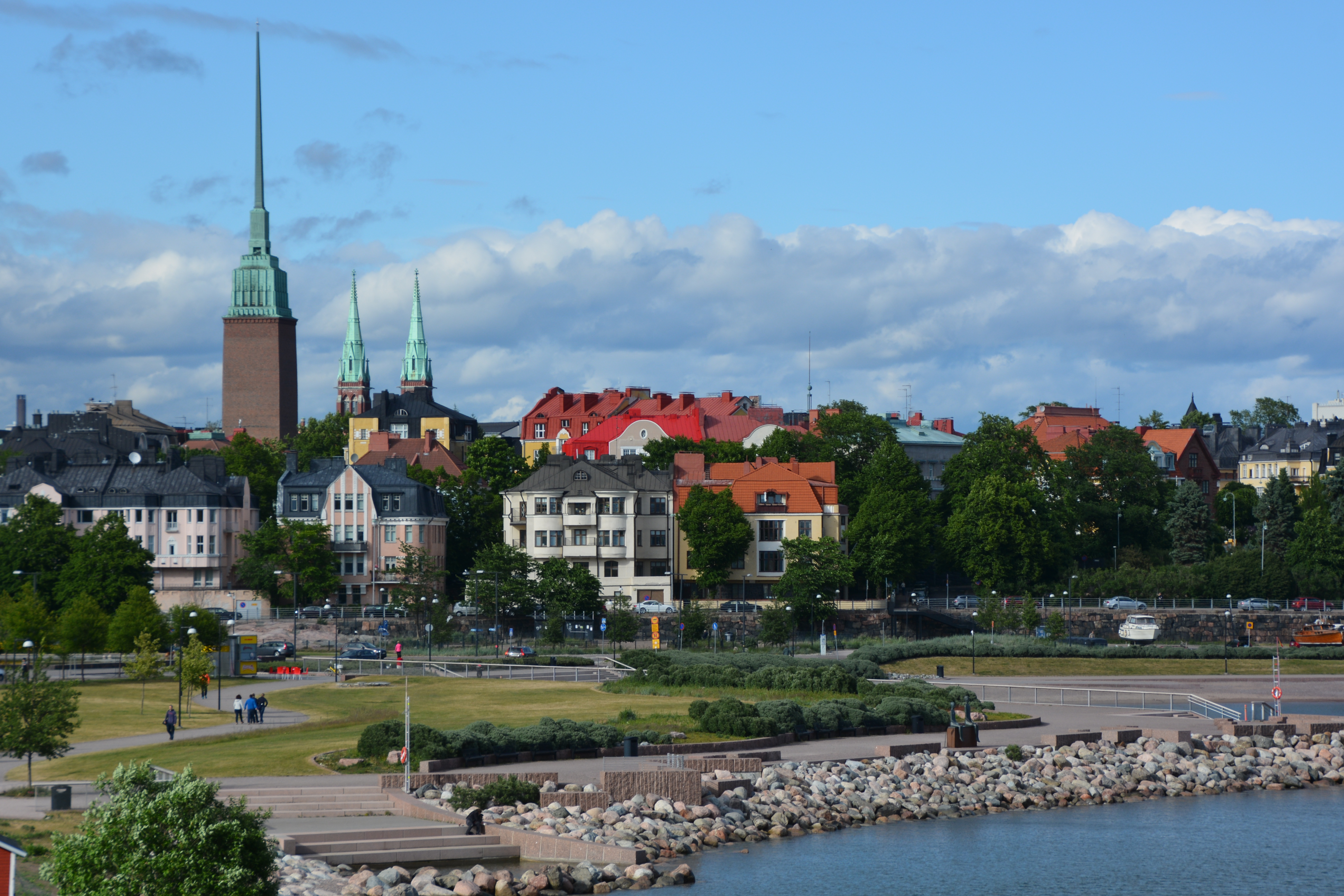 Eira, seen from Ärtholmen/Hernesaari